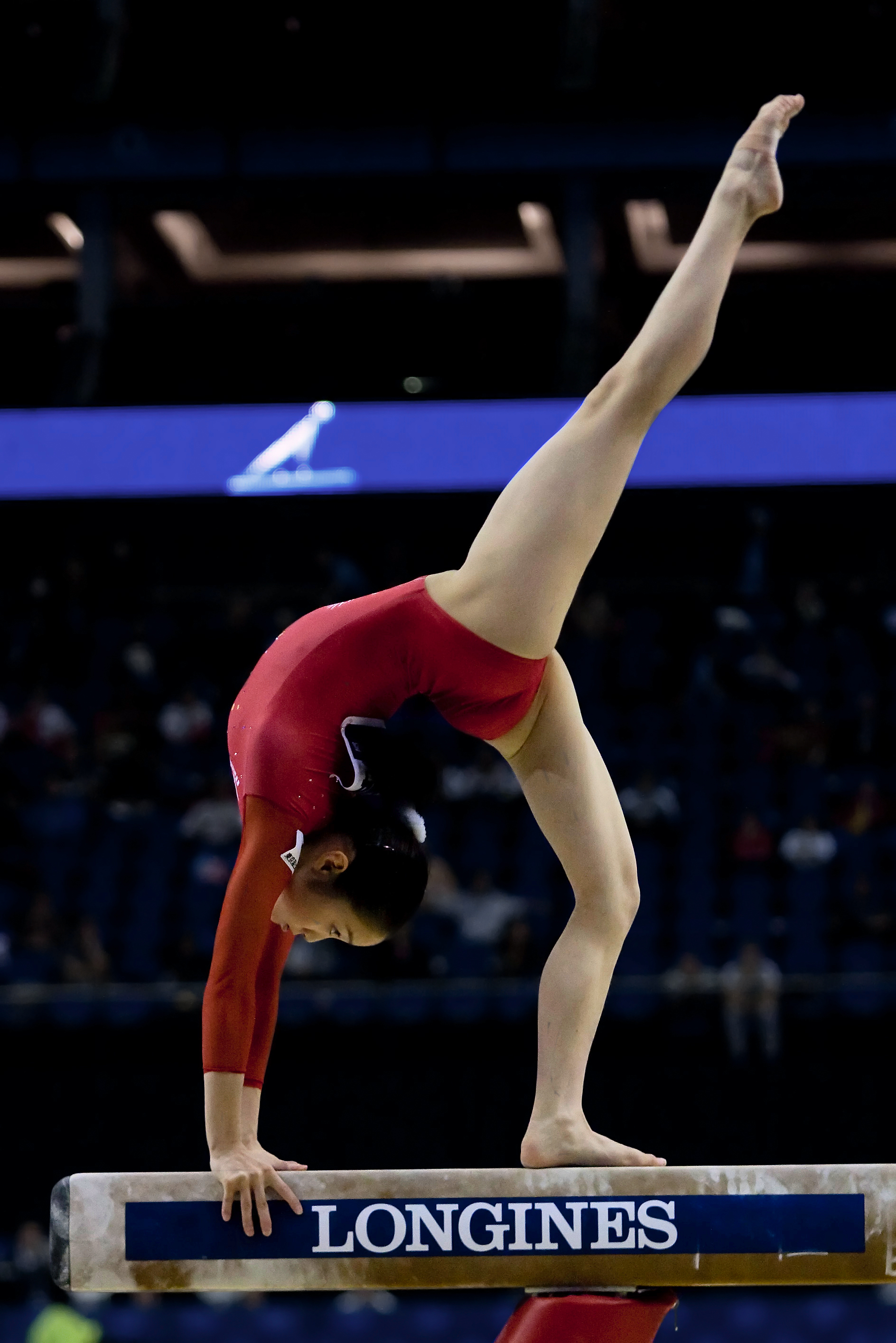 Japanese artistic gymnast, Koko Tsurumi, performing a back walkover on the balance beam during the 41st World Artistic Gymnastics Championships in 2009.